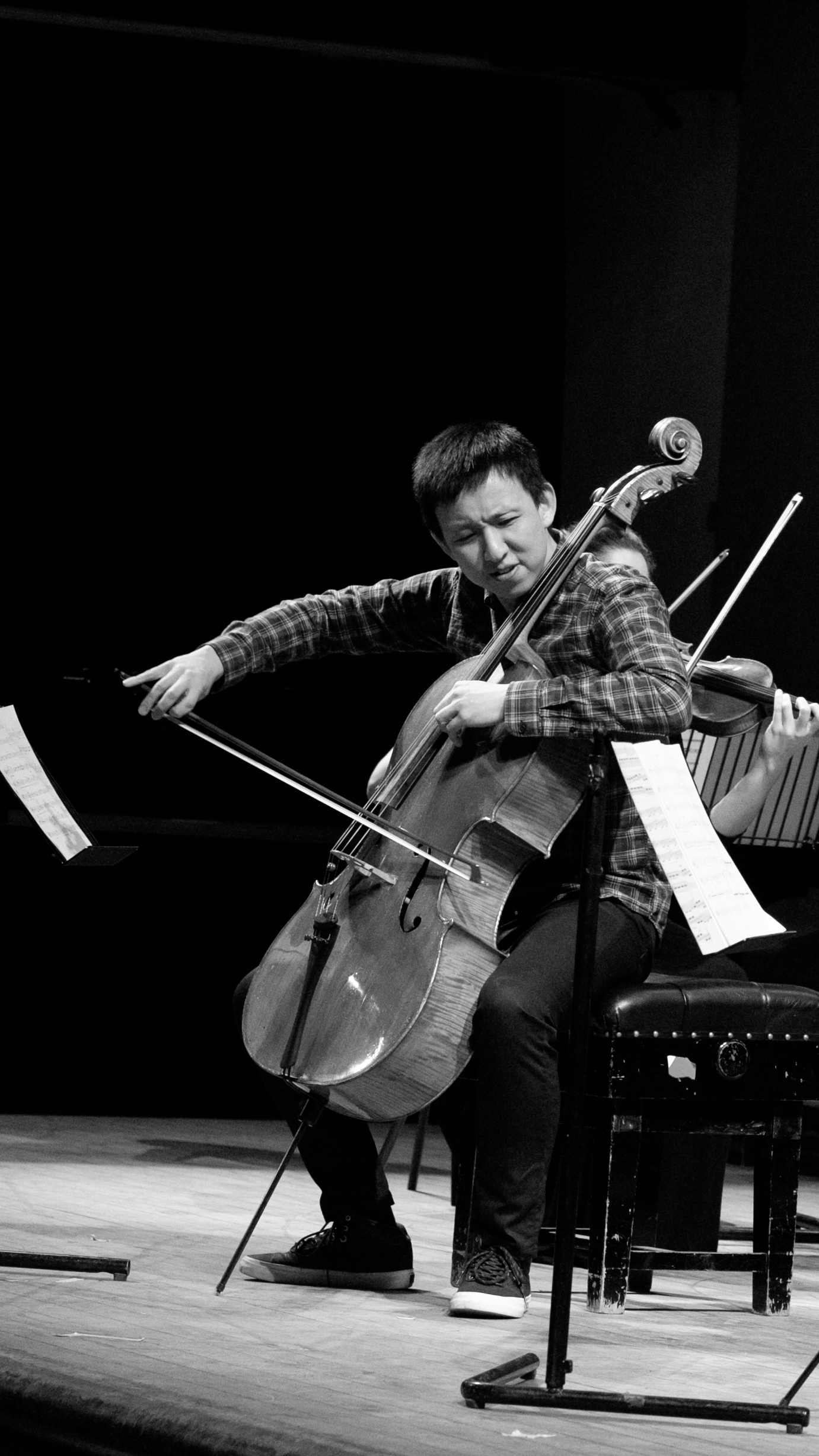 Yelian He on stage performing Sollima's "Violoncelles, Vibrez!" in 2014 at St. John's Smith Square, London